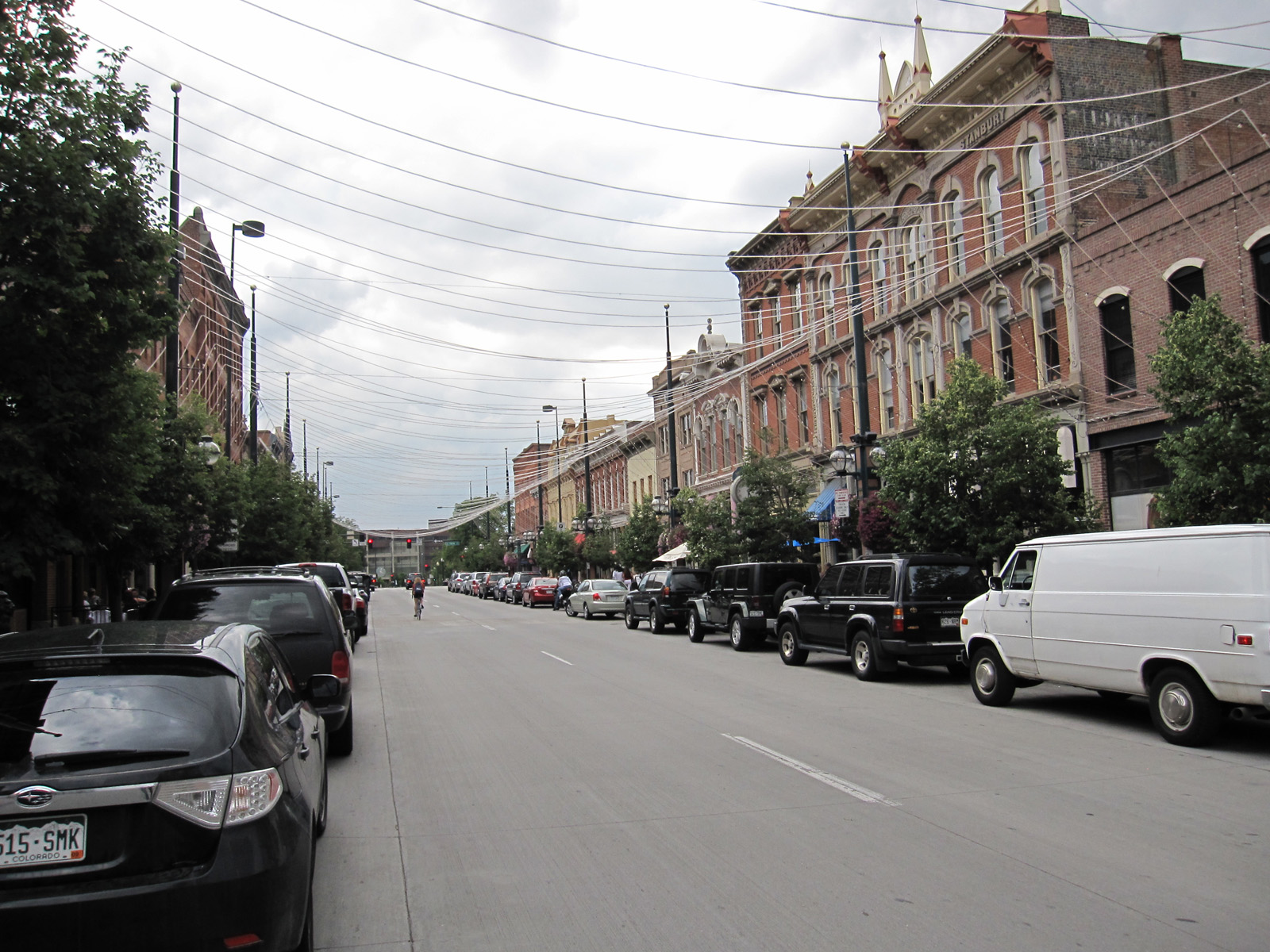 Larimer Square is the historical part of Denver's downtown. It is the Fourth of July - the downtown area is rather dead, quite disappointing for me (as I am visiting on a long drive from Los Angeles, and have to drive home the next day).